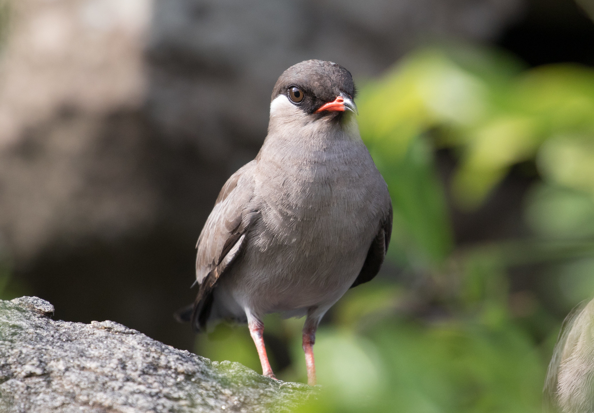 Taken at Murchison Falls National Park, Uganda.